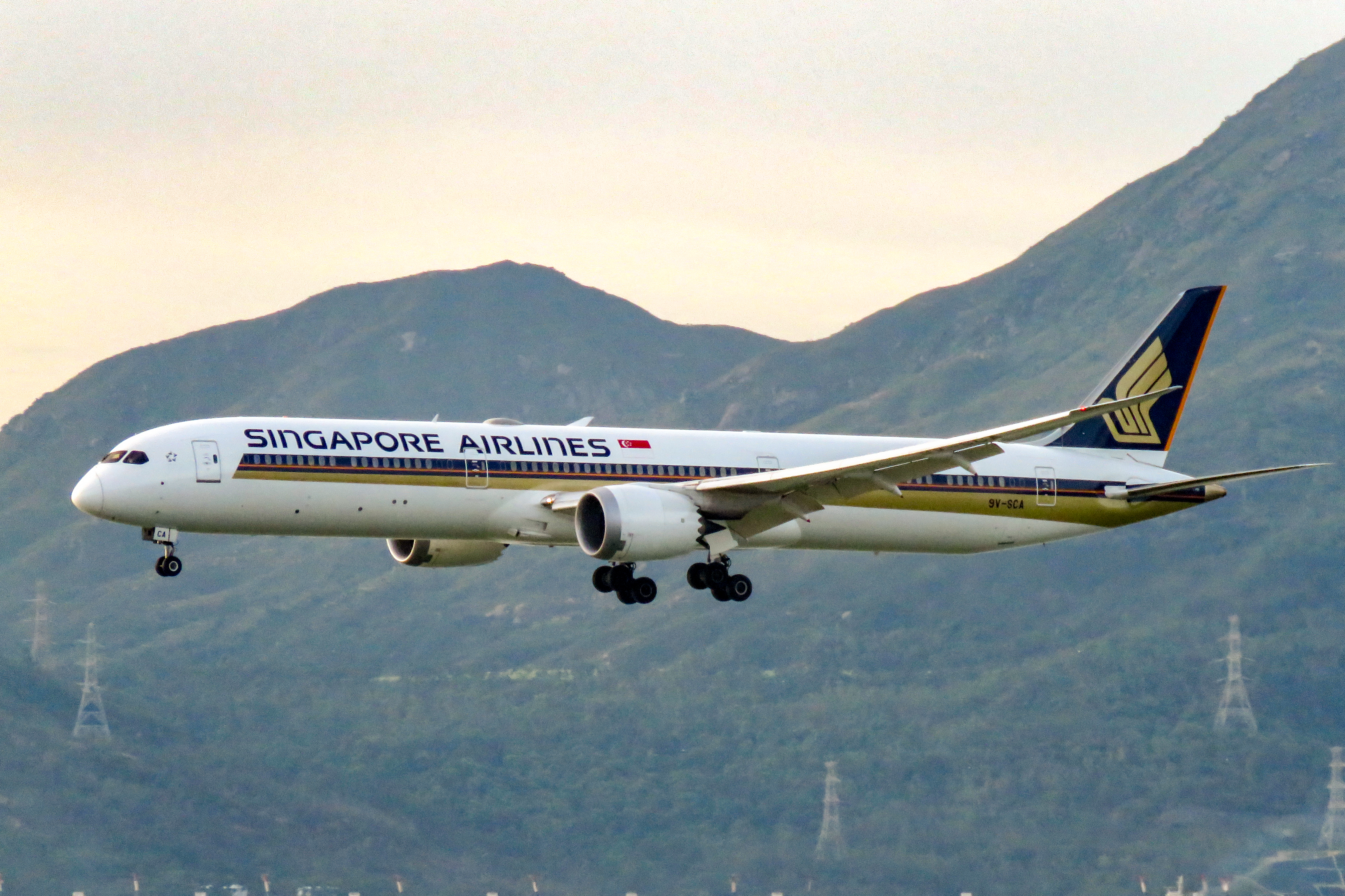 Singapore 872 from Singapore - didn't expect a 78X to come here.